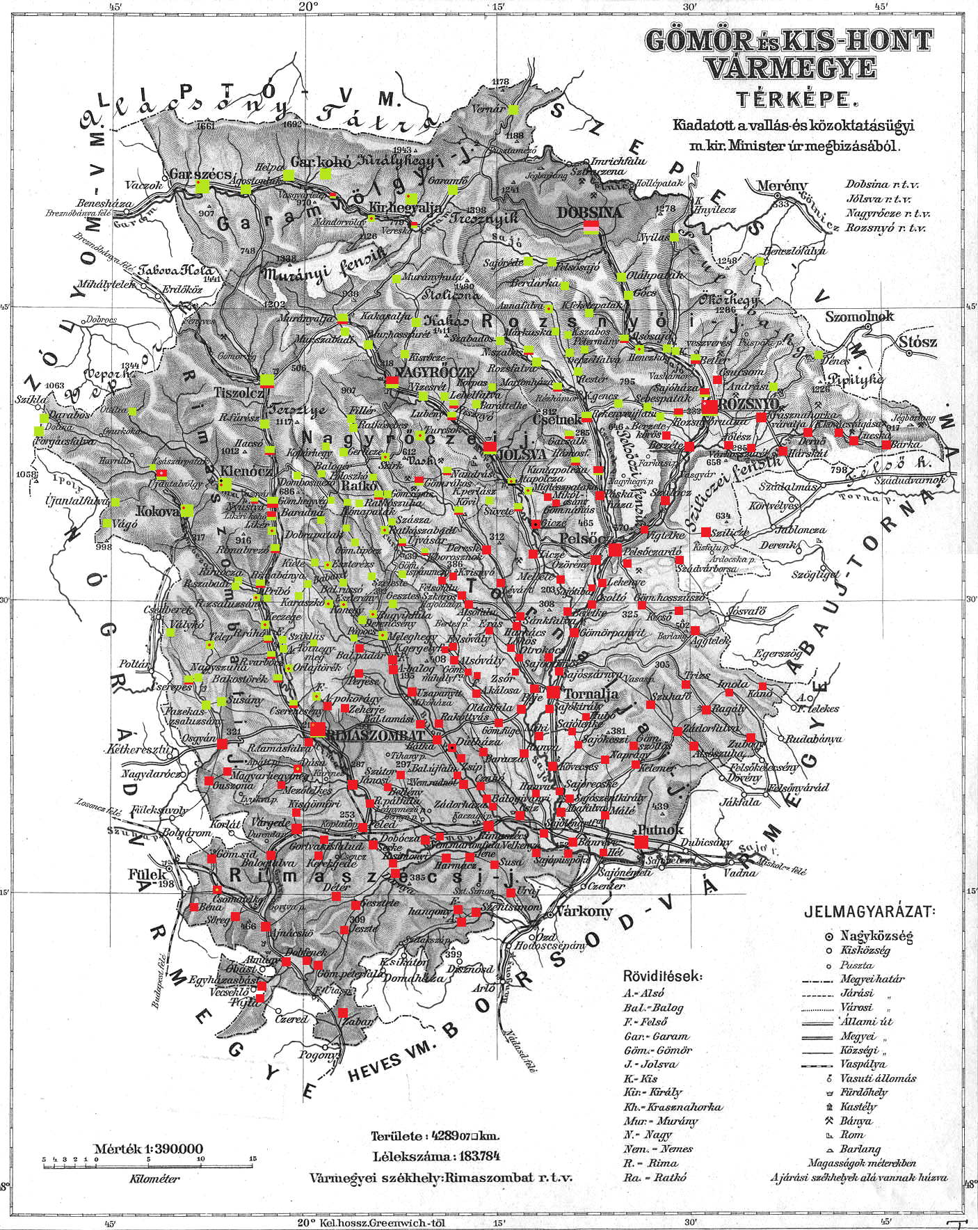 Ethnic map of the county (with data of the 1910 census). Key: red - Hungarians; light green - Slovaks; pink - Germans; black - Roma. Coloured dots in plain rectangles imply the presence of smaller minority populations (generally more than 100 people or 10%). Multicoloured rectangles imply cities and villages with multi-ethnic populations with the order of the stripes following the ethnic composition of the settlement.